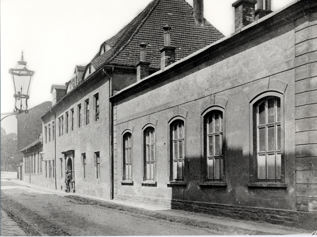 Old Chemical Institute Freiberg University of Mining, Brennhausgasse 5, living- and workingplace of Clemens Winkler, ca. 1900